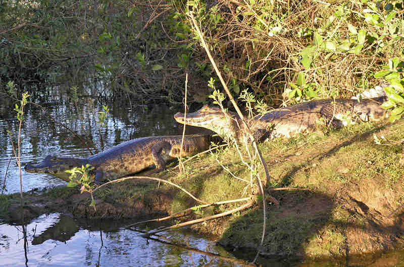 Spectacled Caimans on river bank